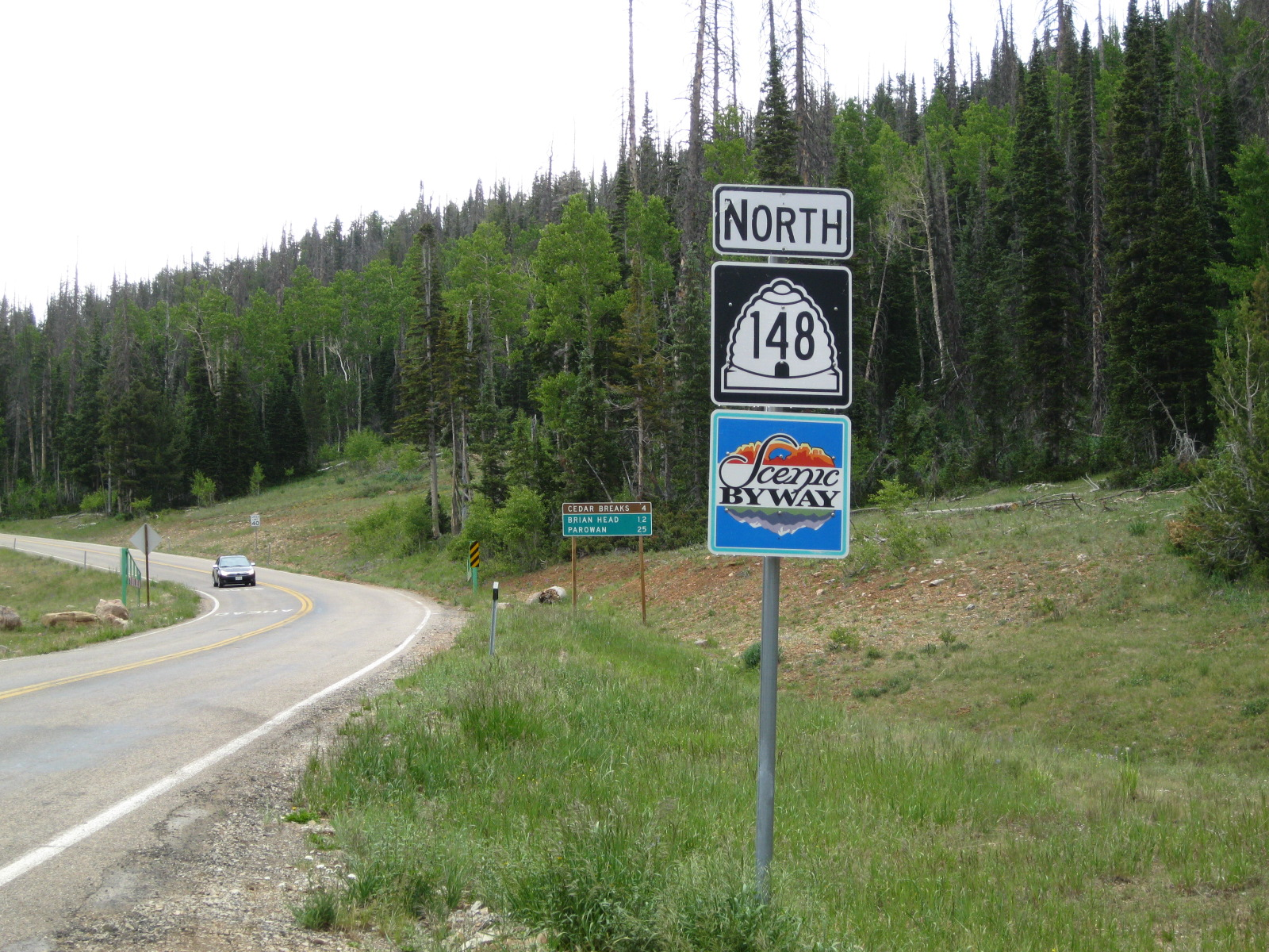 Begin North UT-148 to Cedar Breaks, Brian Head